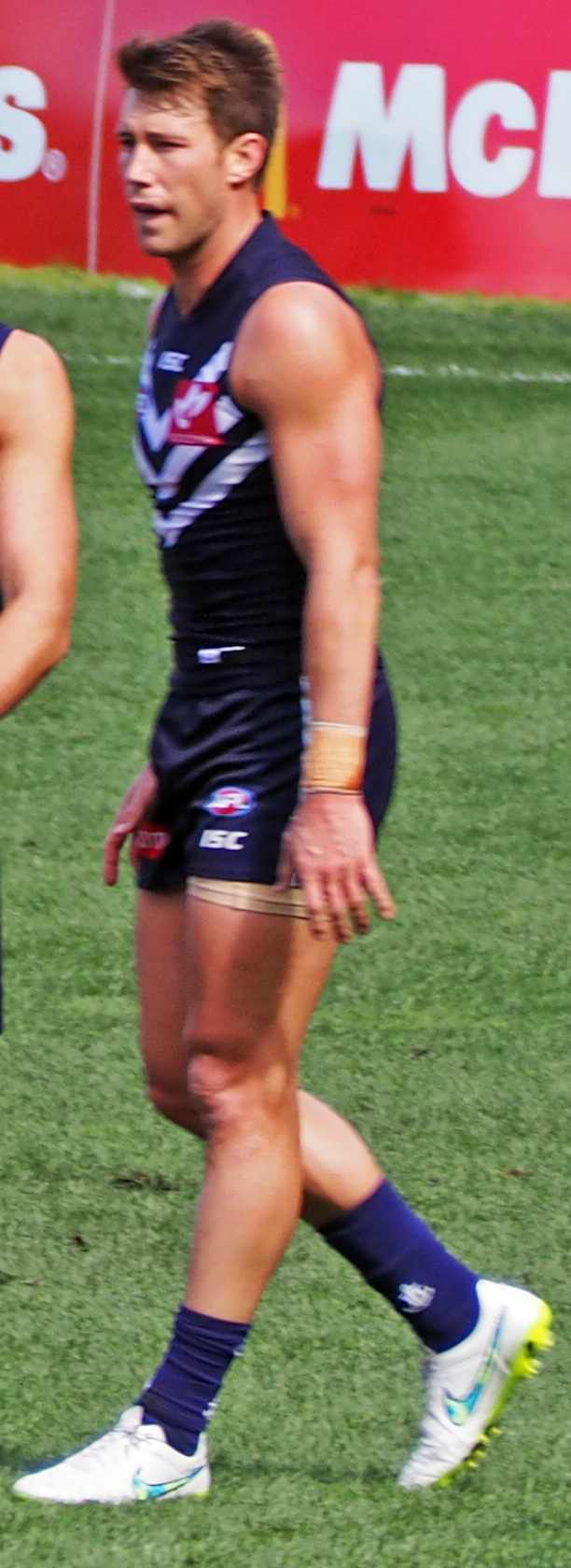 Lee Spurr playing for Fremantle Football Club at Patersons Stadium, Finals Week 1, 12 September 2015